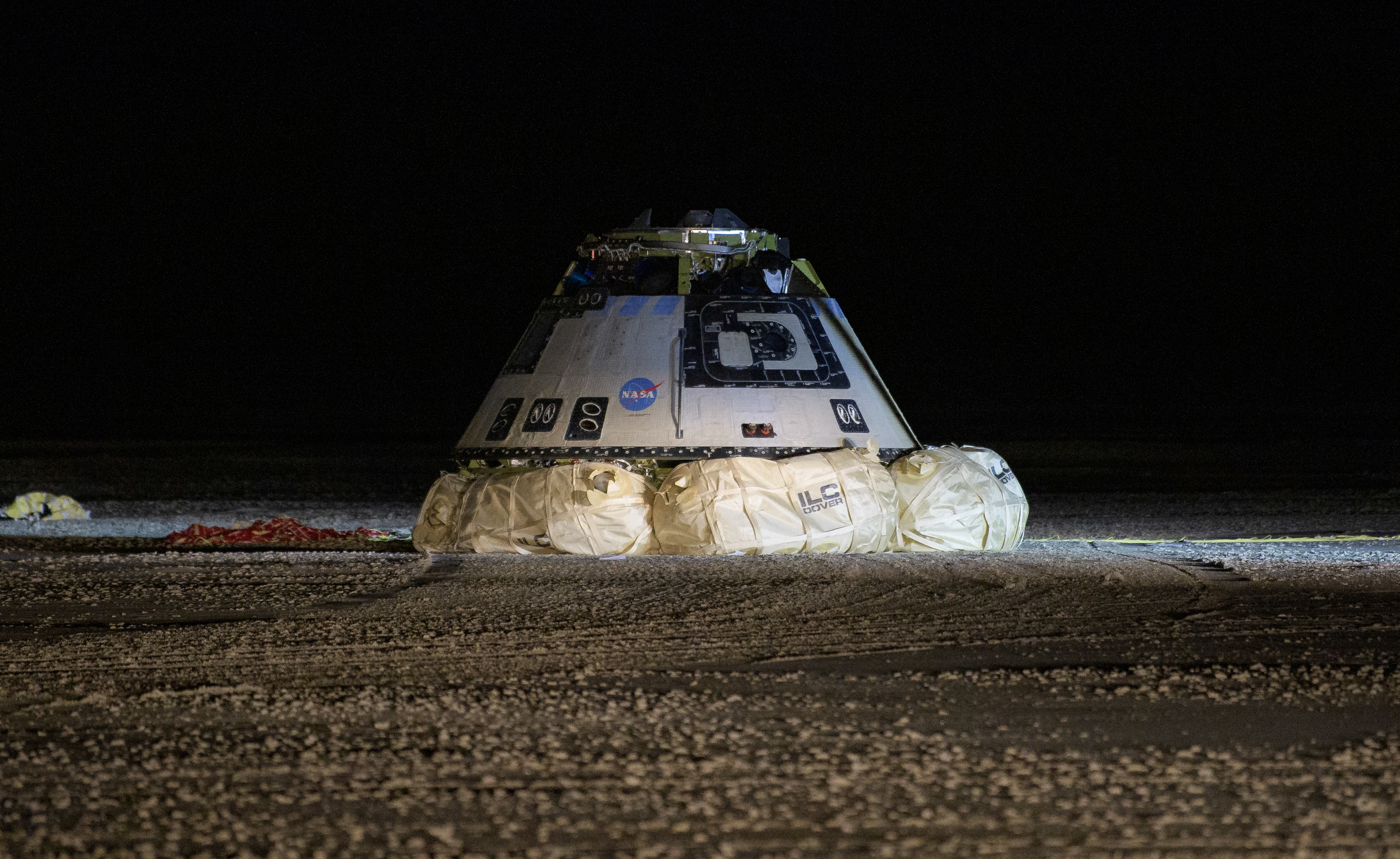 The Boeing CST-100 Starliner spacecraft is seen after it landed in White Sands, New Mexico, Sunday, Dec. 22, 2019. The landing completes an abbreviated Orbital Flight Test for the company that still meets several mission objectives for NASA’s Commercial Crew program. The Starliner spacecraft launched on a United Launch Alliance Atlas V rocket at 6:36 a.m. Friday, Dec. 20 from Space Launch Complex 41 at Cape Canaveral Air Force Station in Florida.